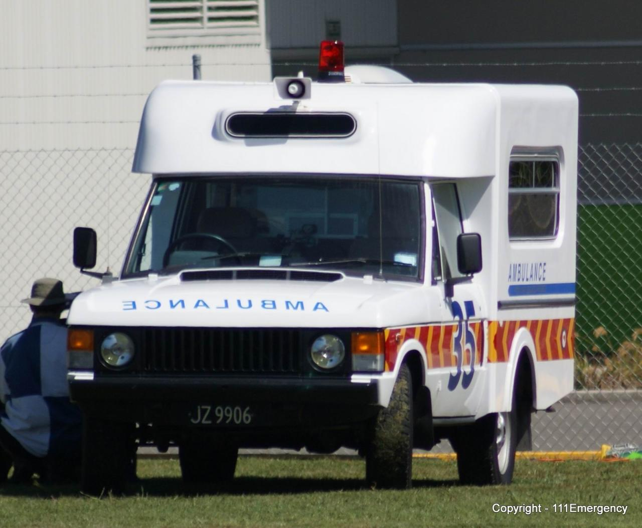 Photos taken at Feilding Armed & Emergency Service Day - Manfield - 20 Feb 2010